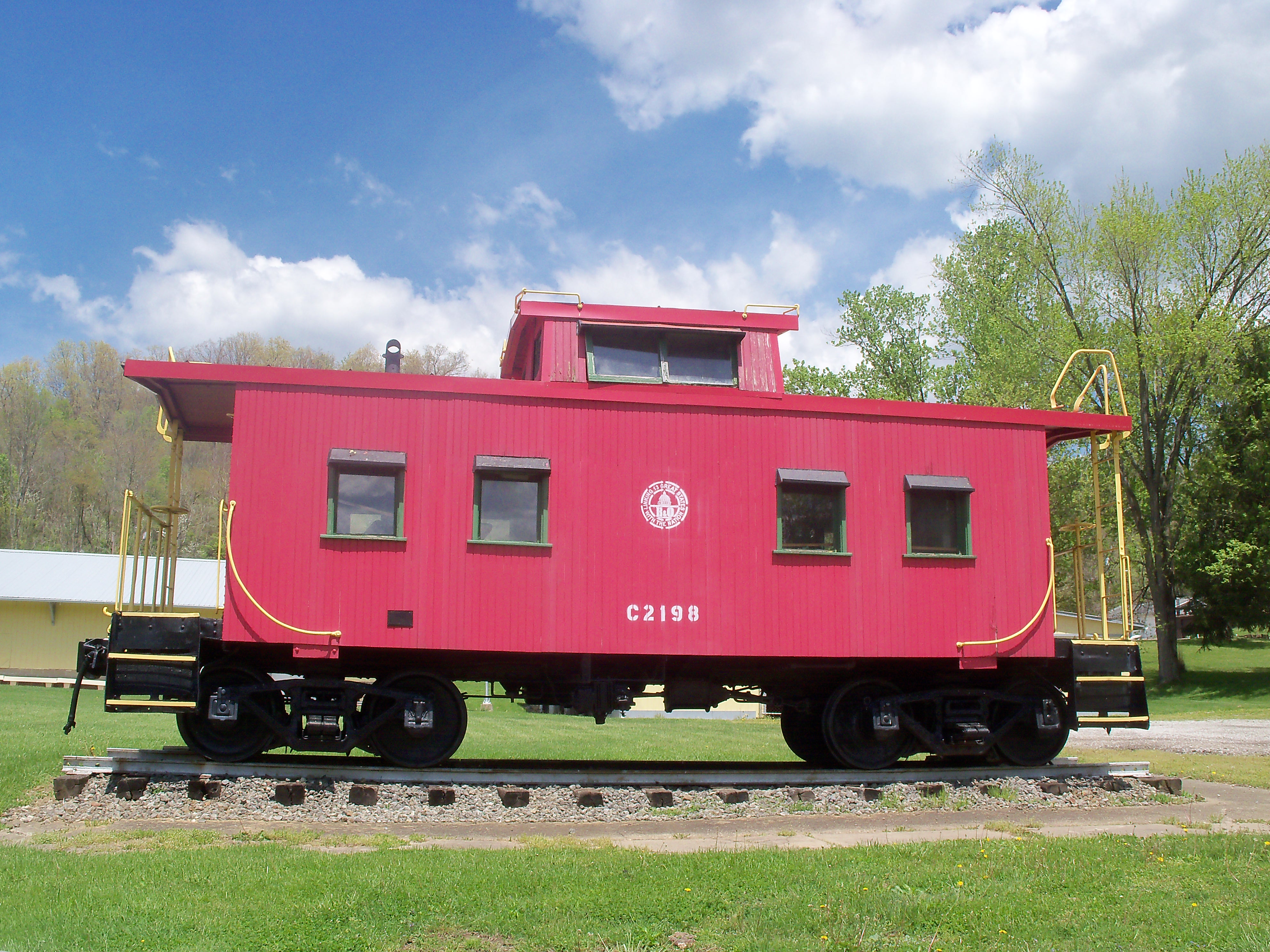 Baltimore and Ohio Railroad caboose in park in Holloway, Ohio